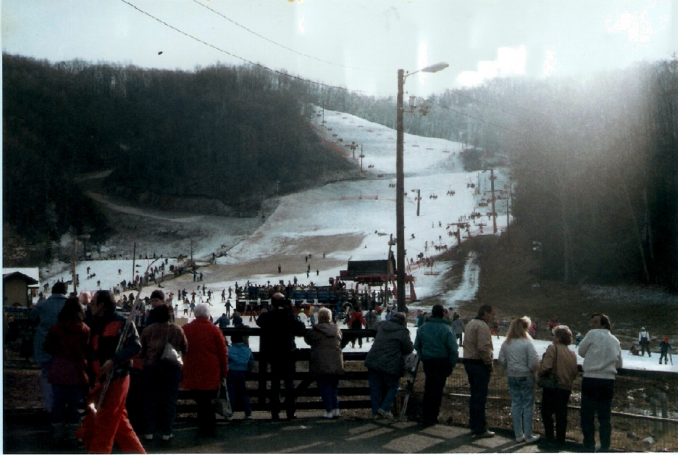 Main ski slope at Ober Gatlinburg resort, Tennessee